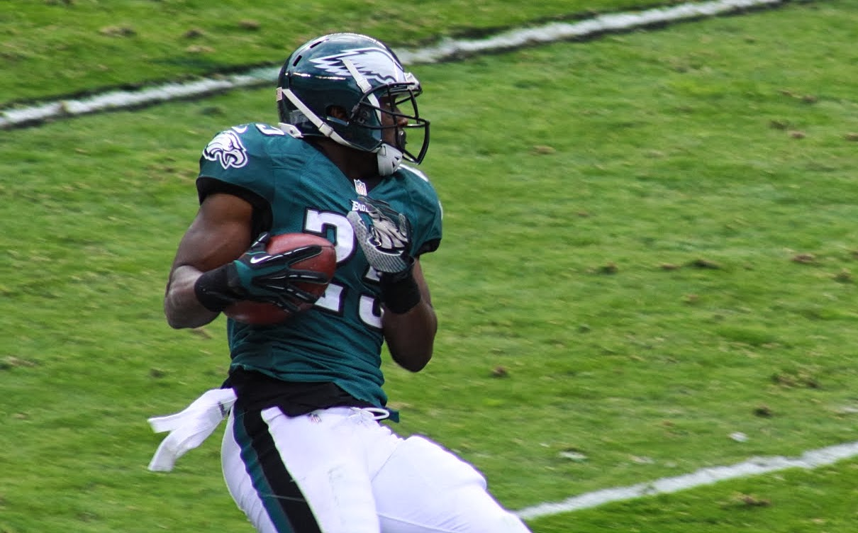 LeSean McCoy